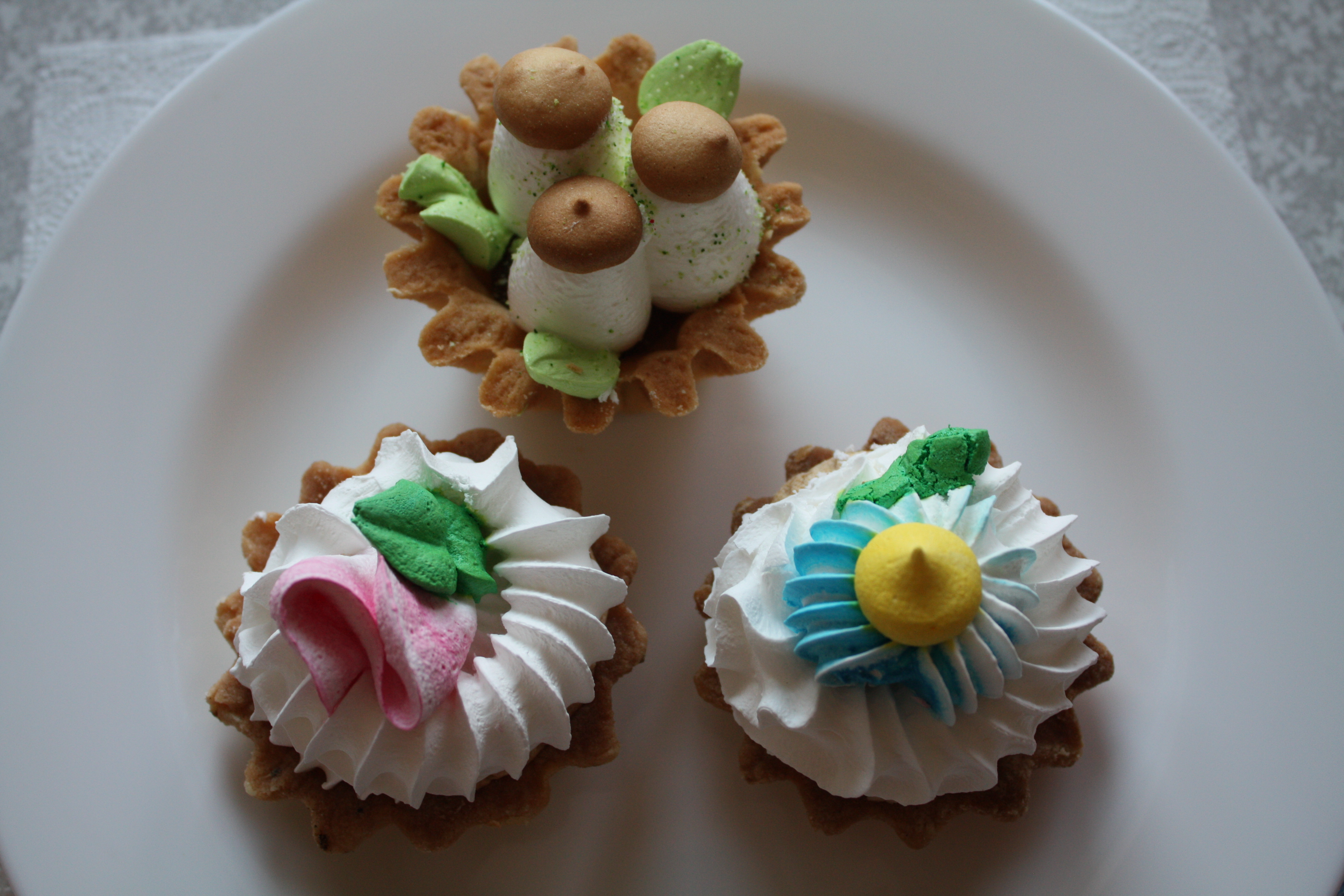 Cakes, Novosibirsk, Russia.